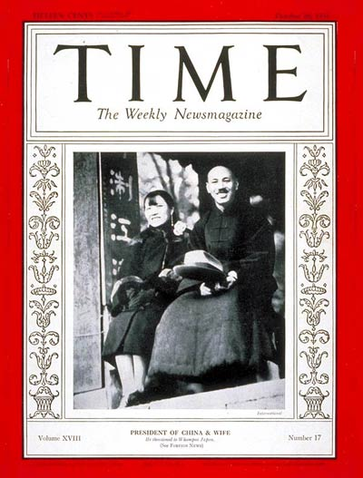 Time magazine, Oct. 26, 1931. The cover shows Chiang Kai-shek & Mme. Chiang